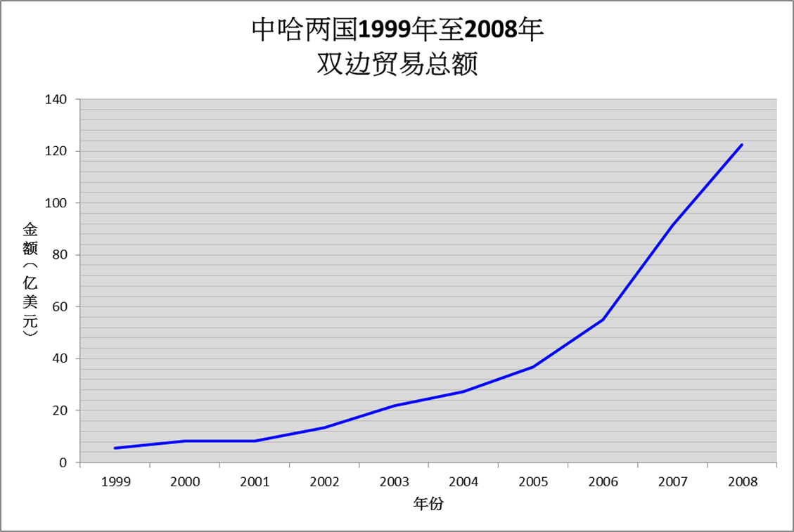 Chinese-Kazakh bilateral trade; Reference:[1]